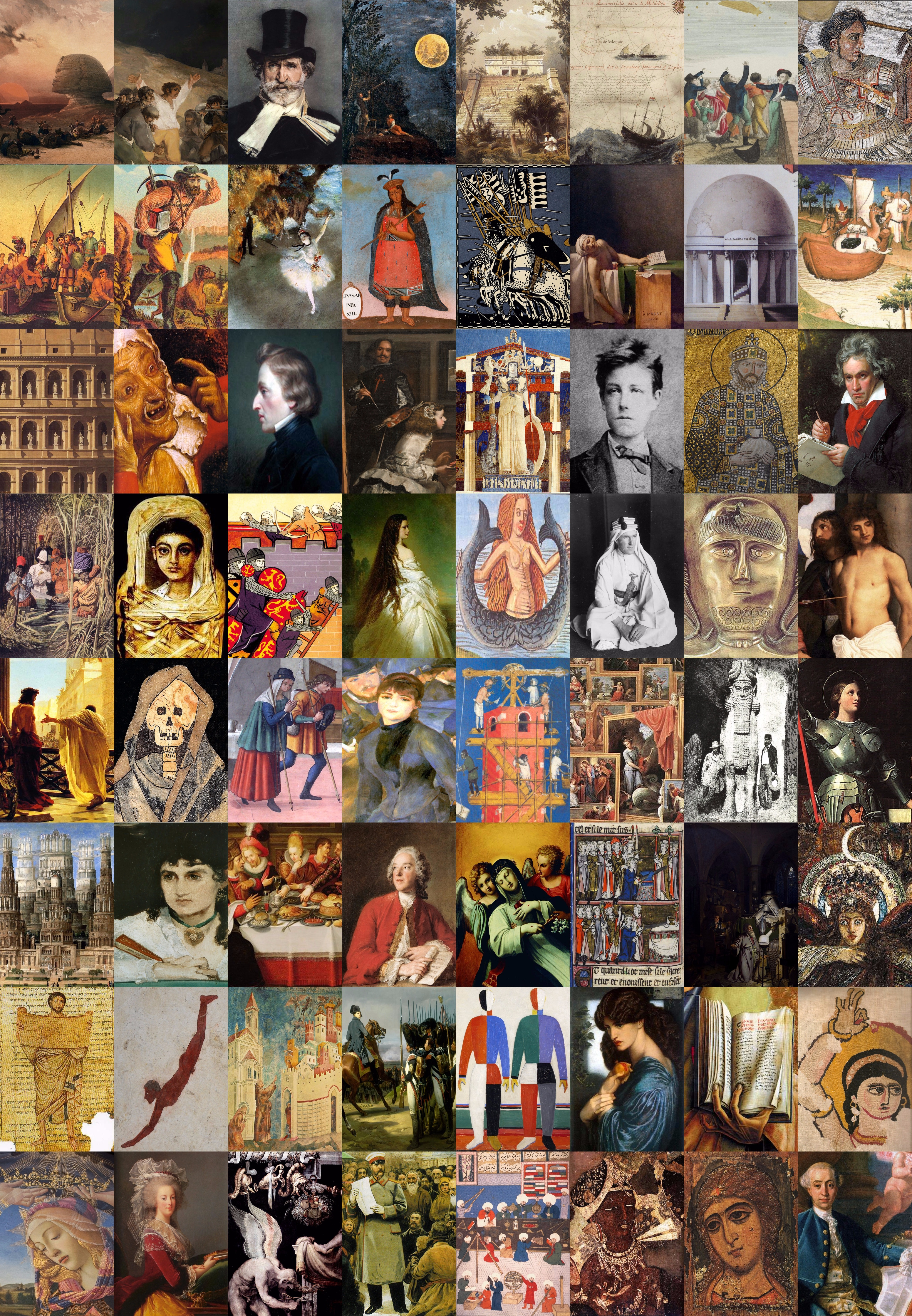 Images used for the book covers of the French collection “Découvertes Gallimard” (UK edition: ‘New Horizons’; U.S. edition: “Abrams Discoveries”). Collage of 64 images for 64 books.